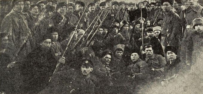 1918 Finnish Civil War: The St. Petersburg Finnish Red Guard members waiting for a train at the Finlyandsky Station.